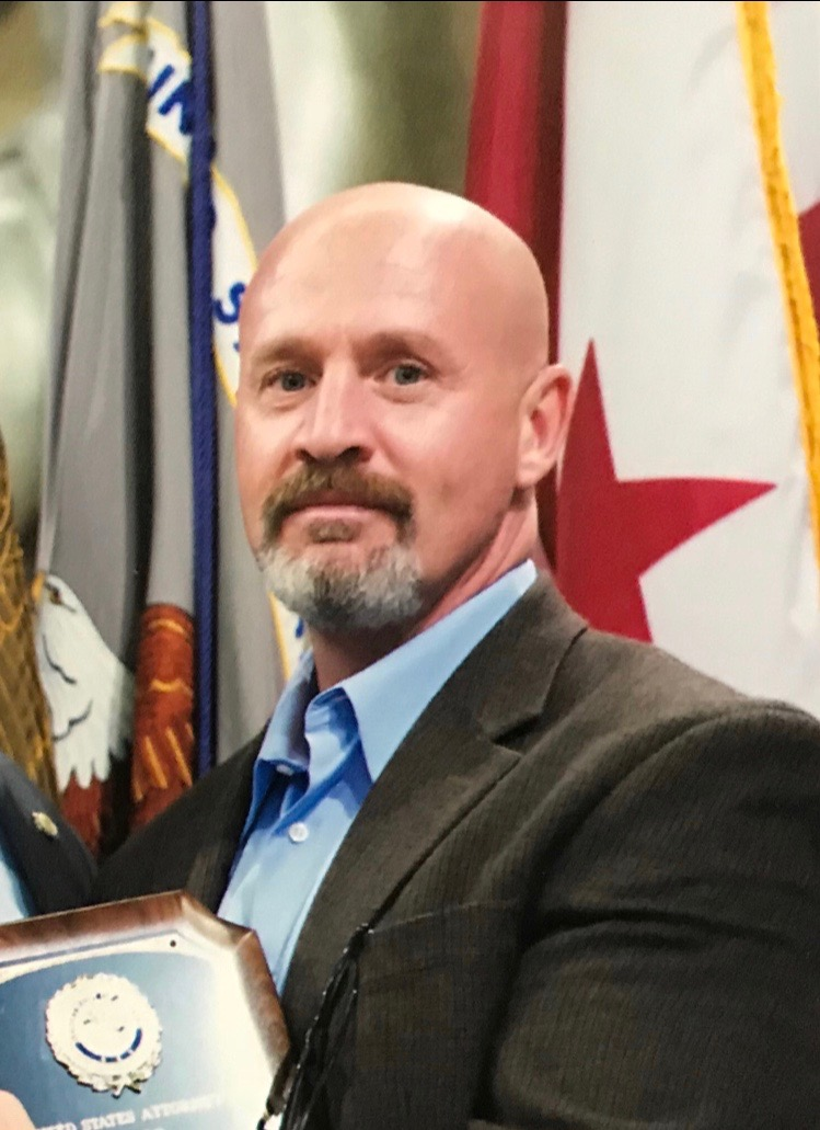 Photo of Glenn Kirschner